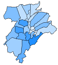 Map of Luxembourg City, Luxembourg, with the boundaries of the city's twenty-four quarters demarcated, colour-coded by population. Population is denoted by seven different shades of blue; in order of increasingly darker shades, the lower bounds (in people) are: 0, 1000, 2000, 3000, 4000, 7000, 10000.